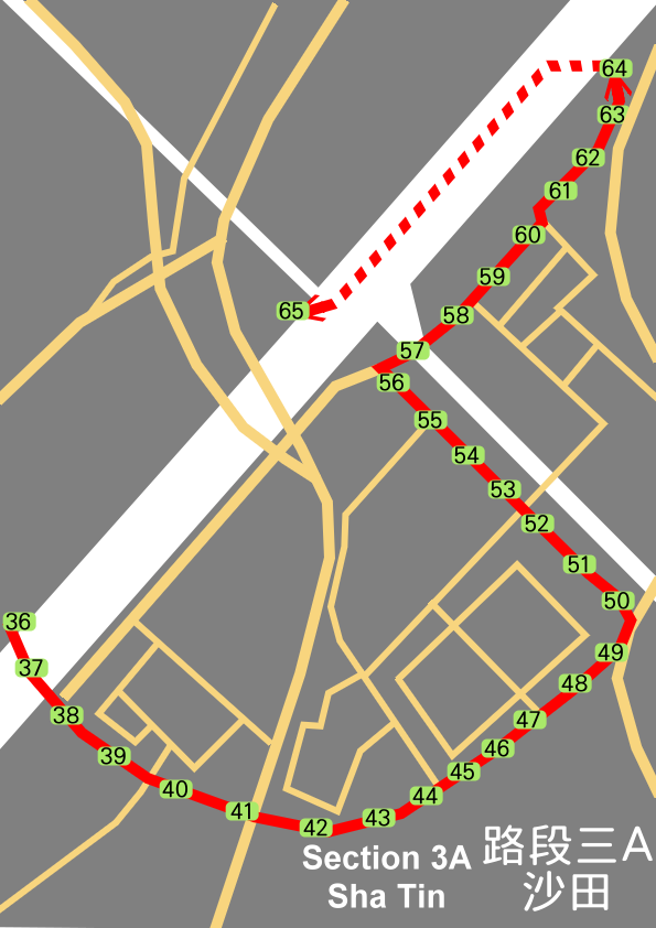 2008 Summer Olympic Torch Relay in Hong Kong, Section 3A, Sha Tin